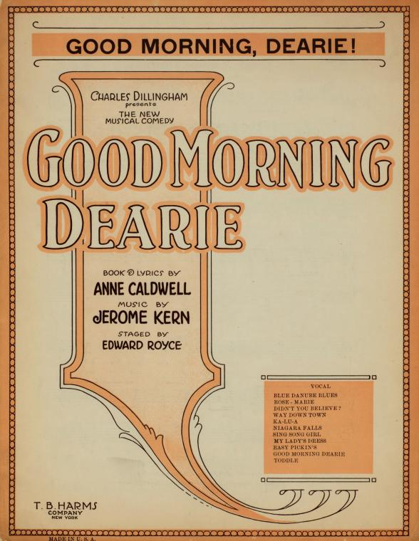 Jerome Kern's musical Good Morning Dearie, Broadway (1921-1922) - poster